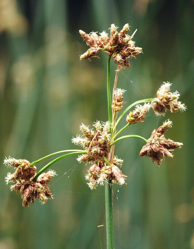 Schoeneplectus lacustris, Hohenloher Land, Germany